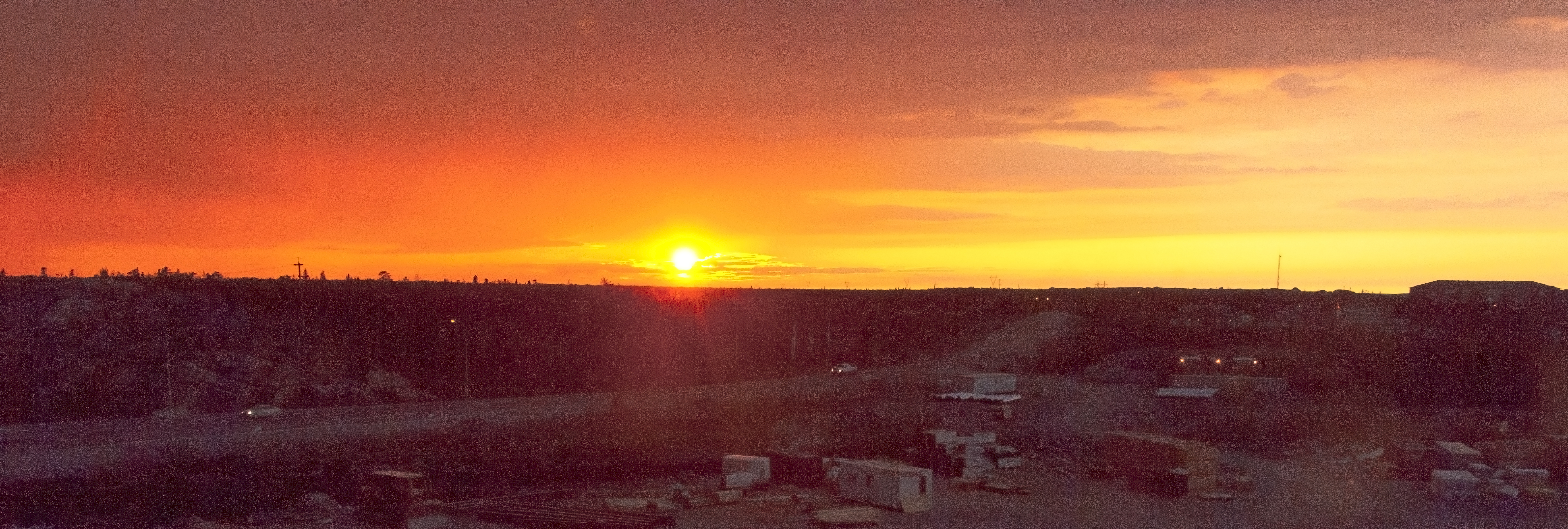 Panoramic view of this 11 p.m. sunset in Yellowknife.